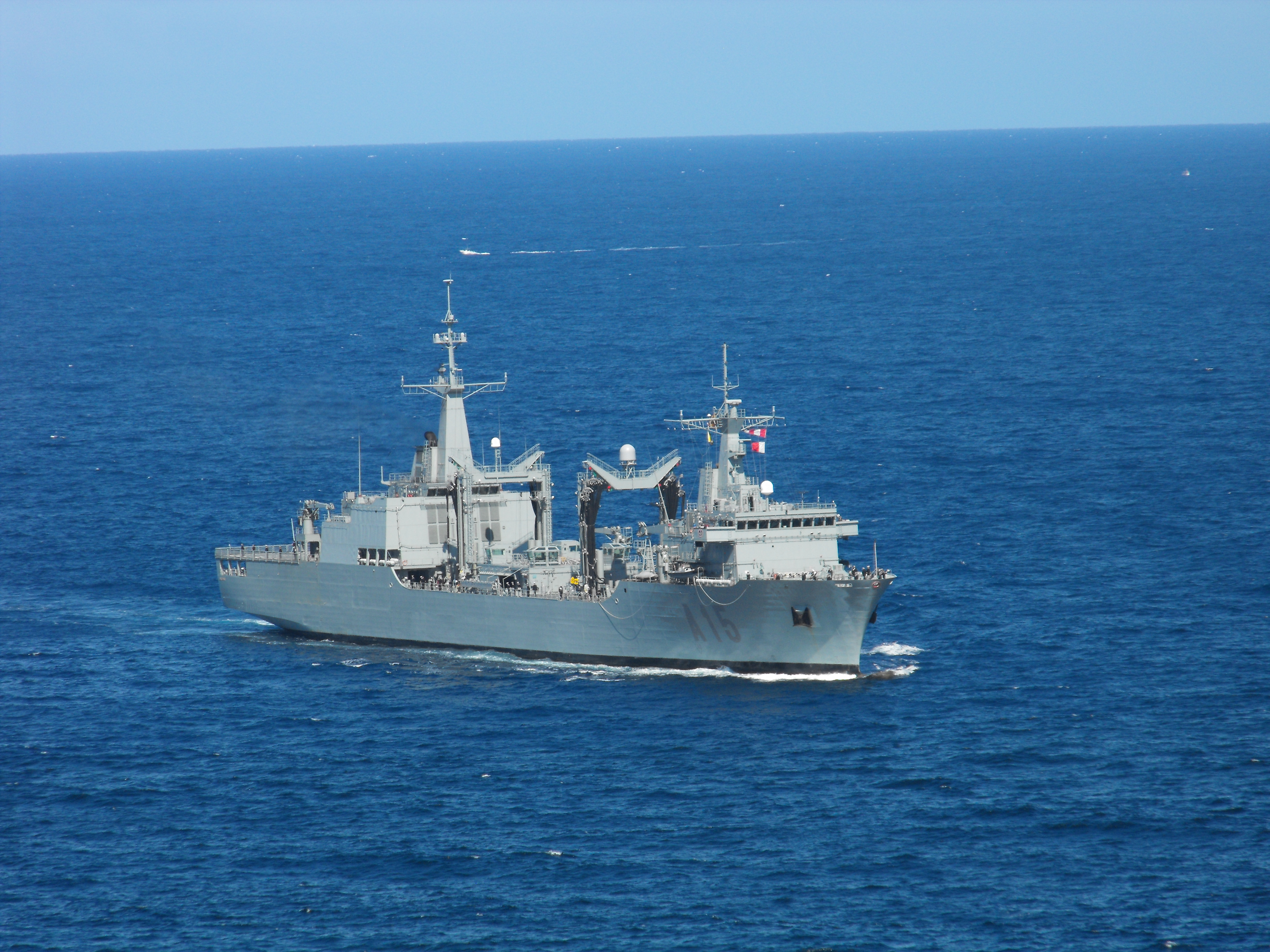 Photographs taken during day 2 of the Royal Australian Navy International Fleet Review 2013. The Spanish replenishment vessel Cantabria entering Sydney Harbour.